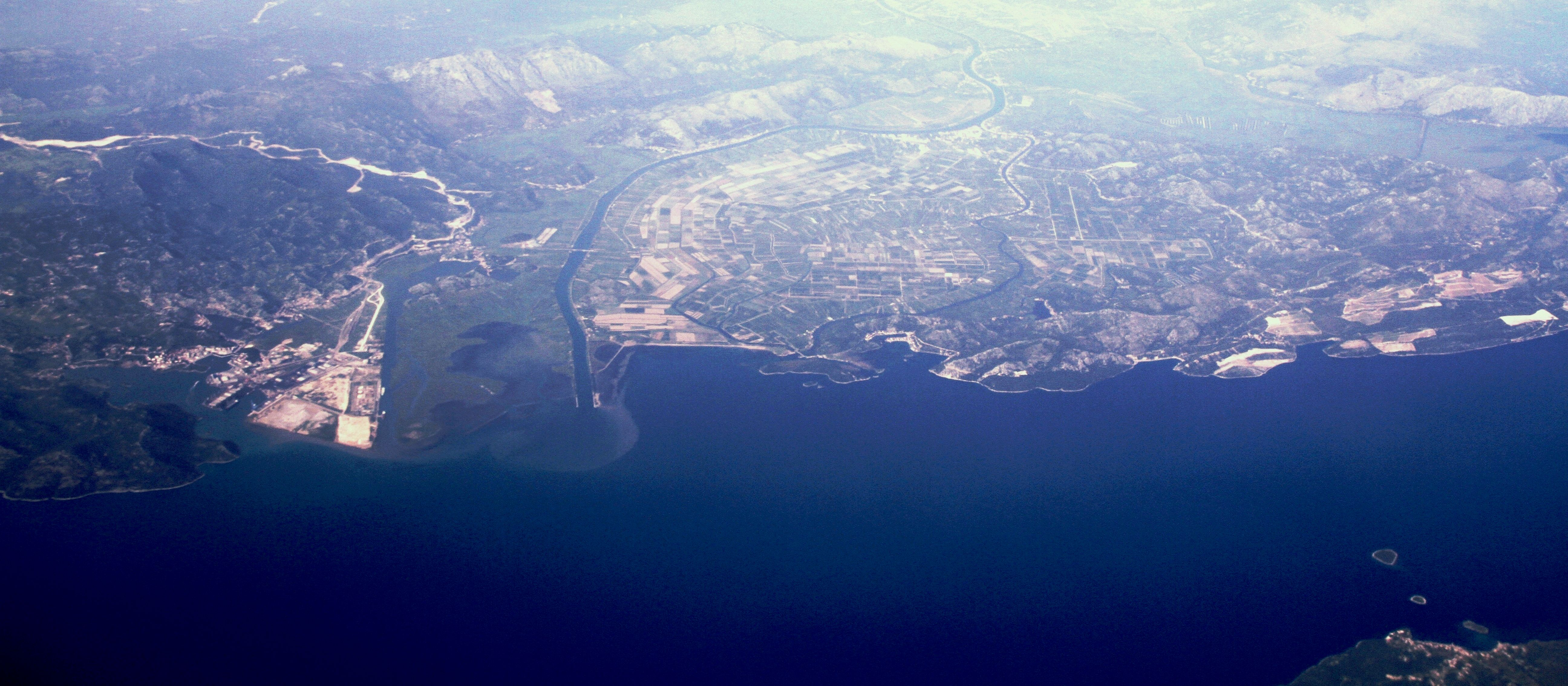 Aerial view of the delta of the river Neretva, the largest river flowing into the Adriatic from Croatia. The river has large agricultural fields, and a port. Located in Dubrovnik-Neretva province, Croatia.